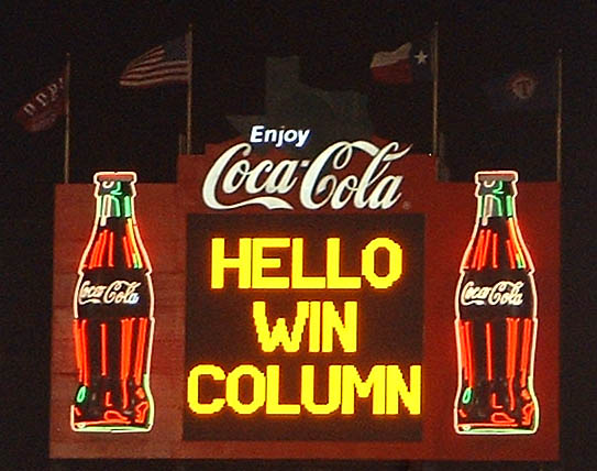 A photograph of the scoreboard at Rangers Ballpark in Arlington after the Texas Rangers win a game. The phrase "Hello Win Column" was made popular by the late Rangers Broadcaster Mark Holtz. This was taken at Rangers Ballpark in Arlington, June 29, 2005 by Eric Brynsvold